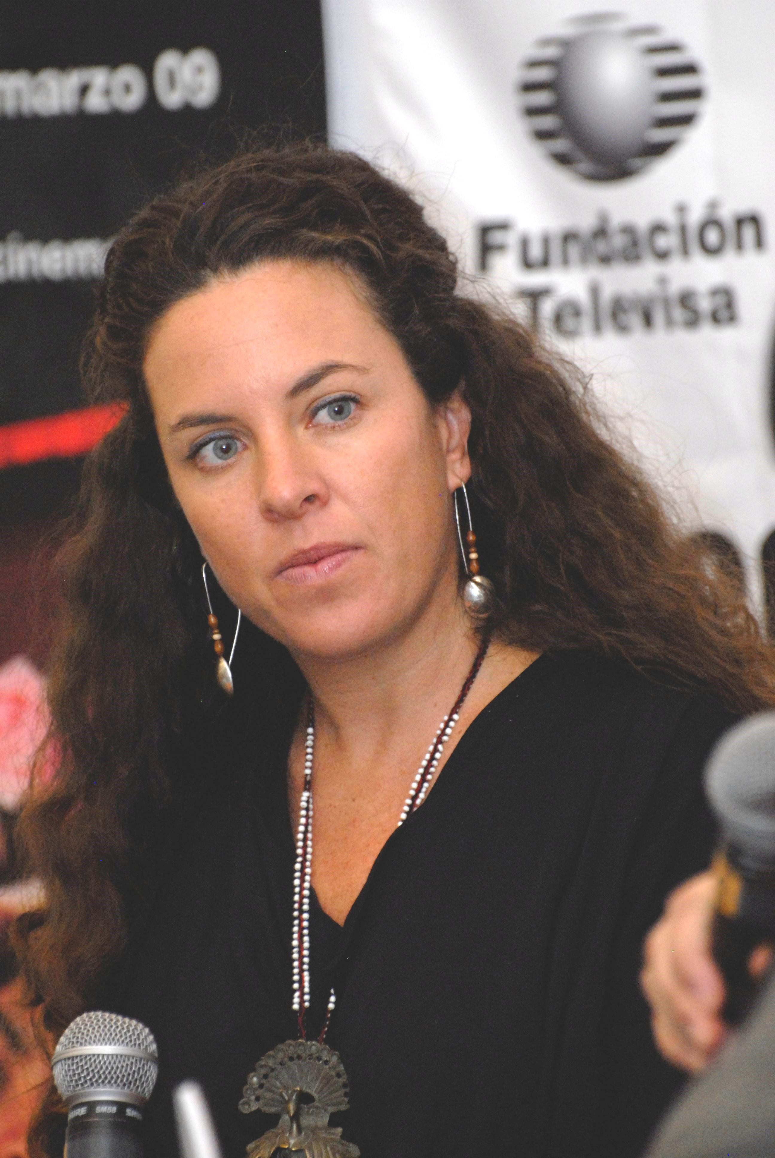 Peruvian film director Claudia Llosa (Festival Internacional de Cine en Guadalajara, Mexico, 2009-03-23)